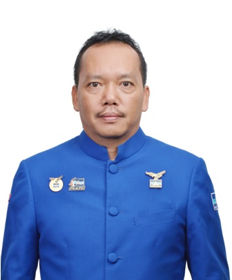 Ramadhan Pohan, Indonesian member of parliament from Partai Demokrat.